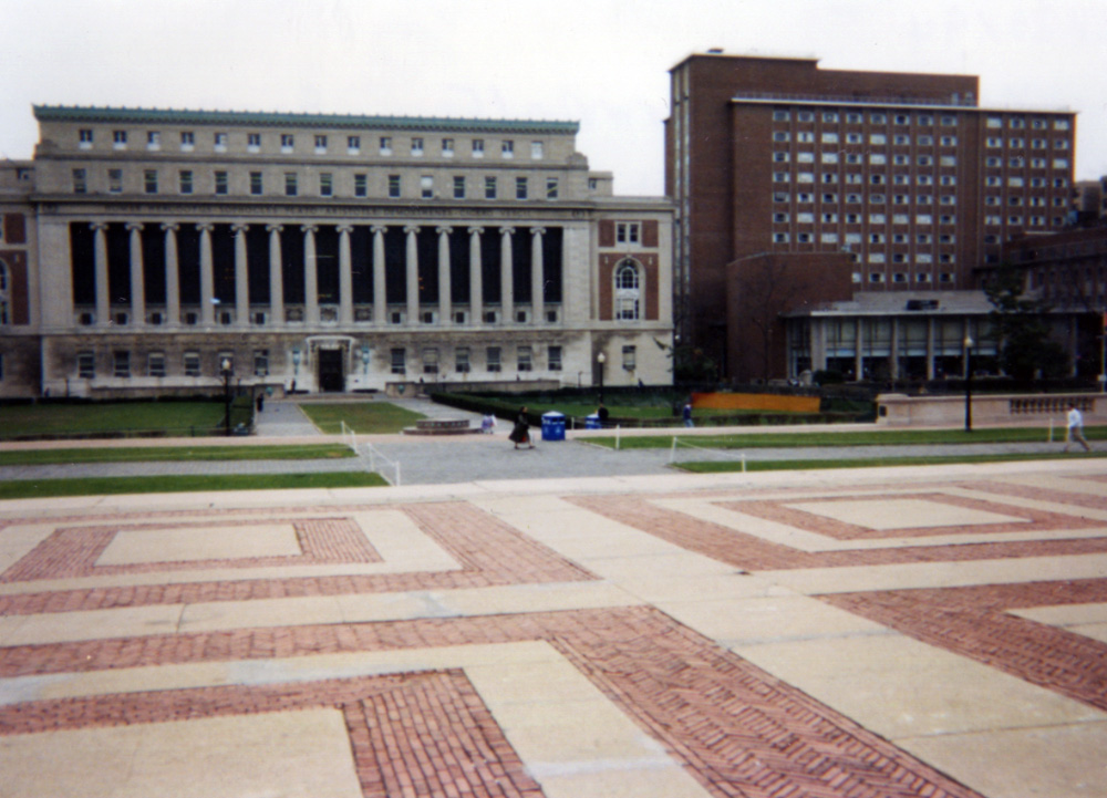 Columbia University is located in the Morningside Heights neighborhood of Manhattan, bordering Harlem to the north and east and Upper West Side to the south. The McKim, Meade, and White architectural team designed the current campus in the late 1890s, replacing older campuses further downtown. Although located in the northern remoteness at the time, it soon was connected to the rest of the city via New York's first subway line in 1904 (the Broadway IRT line, currently Line 1, stopping at 110th Street and 116th Street - Columbia University stations). This view looks southwest from the center of the campus. On the left is Butler Library, the largest building on campus, and the main library since opening in 1933. On the right are Carman, a freshman dormitory, and Ferris Booth, student activities building; Ferris Booth, built in 1959 and woefully inadequate by the 1990s, would be demolished in 1996 to make room for the replacement building, Alfred Lerner. Columbia University is one of the eight members of the prestigious Ivy League; the other seven, all in the Northeastern US, are Dartmouth, Harvard, Brown, Yale, Cornell, Princeton, and Pennsylvania.